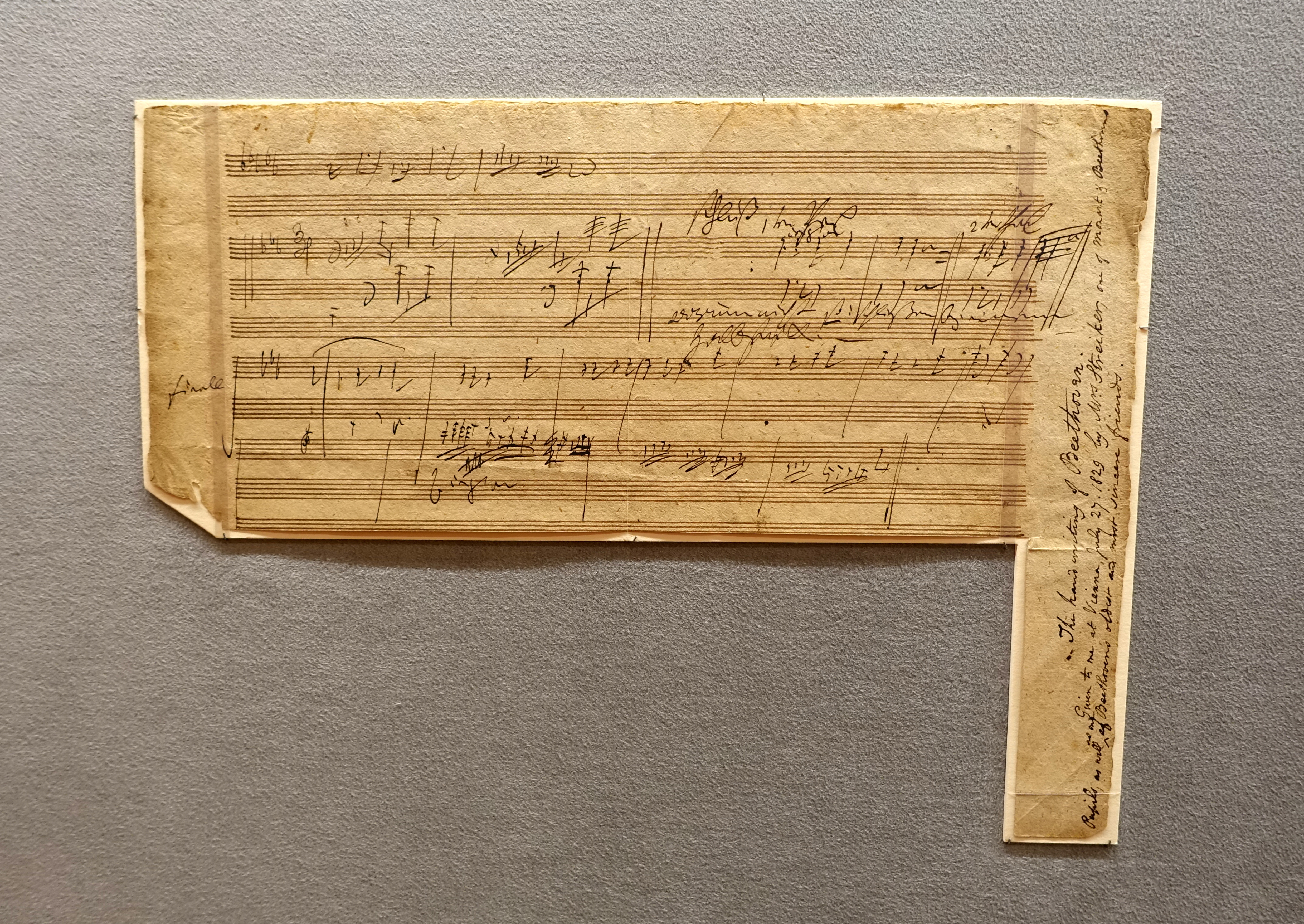 Exhibit in the Morgan Library & Museum - New York City, New York, USA.